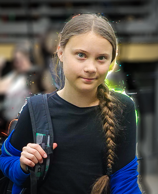 Greta Thunberg in Kungsträdgården, Stockholm, for "Global Strike for Climate" on May 24, 2019. (Fridays For Future )